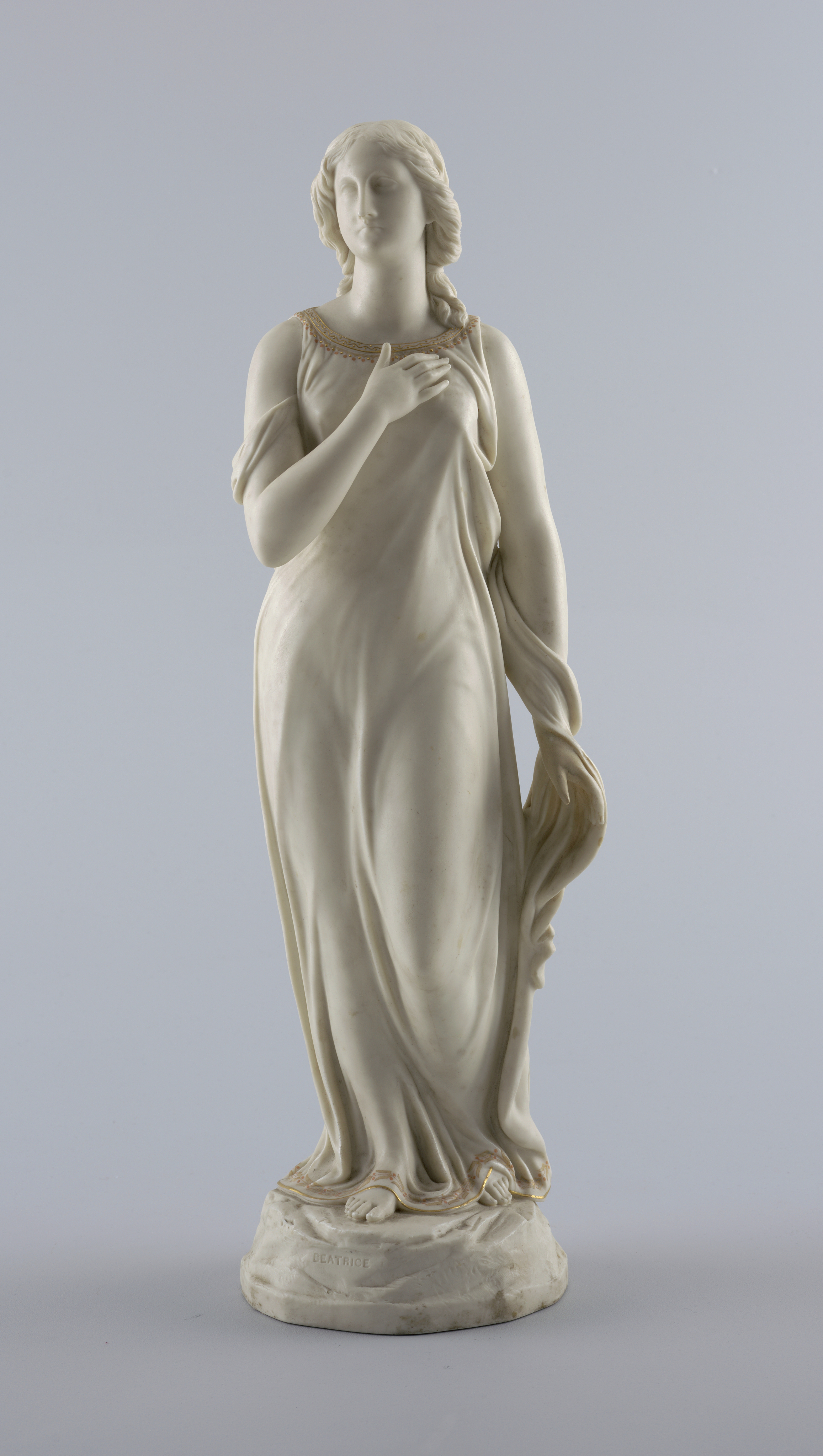 On irregularly cut base, a standing figure of a young woman with left knee bent and right arm and hand lifted to left breast. Flowing dress ornamented with enamel and gold.